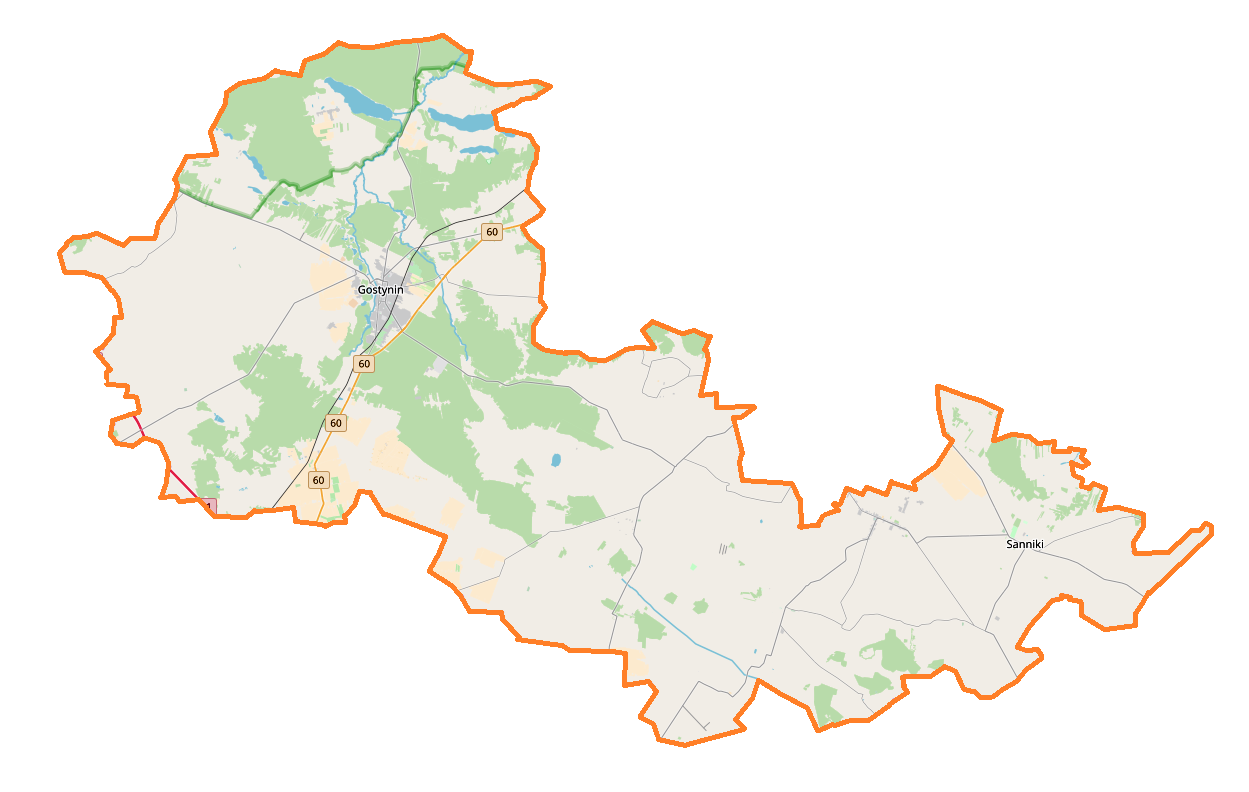 Map of Powiat gostyniński, Poland This map of Powiat gostyniński was created from OpenStreetMap project data, collected by the community. This map may be incomplete, and may contain errors. Don't rely solely on it for navigation.